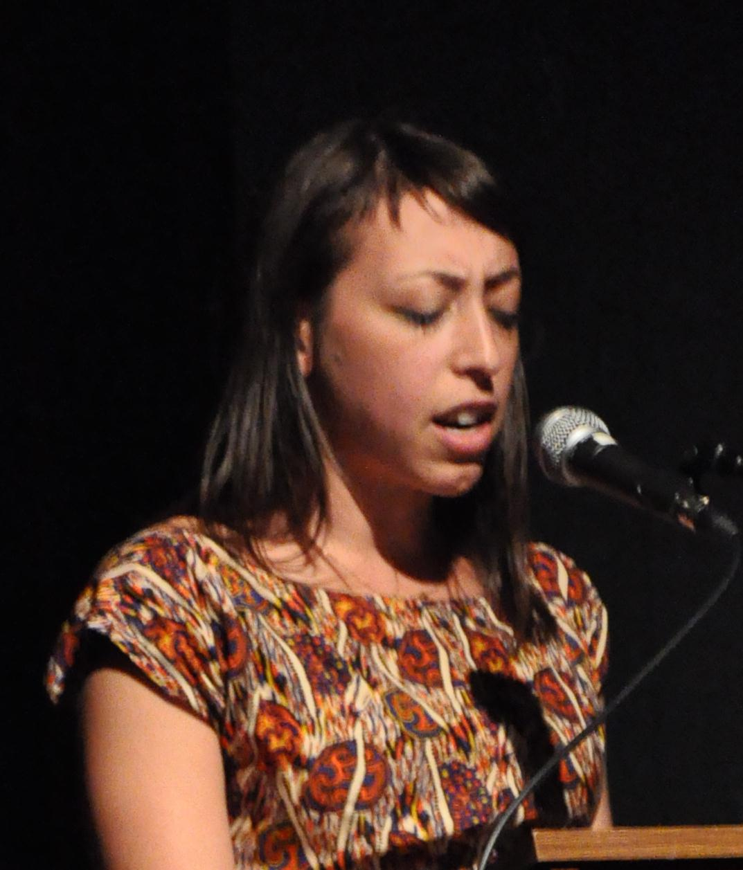 Former Colbert Report executive producer Allison Silverman, Late Night with Jimmy Fallon writer Morgan Murphy, writer and Second City alums Jenny Hagel and Megan Kellie, and musical guests Peacock’s Penny Arcade take the stage at 92YTribeca for a special night of performance and discussion. After our line-up of funny ladies show off their comedy chops they’ll sit down for a round-table discussion about their perspectives on the historically male-dominated world of comedy and the historically humorless world of feminism. Hosted by DoubleX editors Hanna Rosin, Emily Bazelon and Jessica Grose.